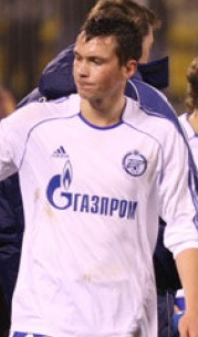 Ivan Lapin as a p0layer of FC Zenit St. Petersburg